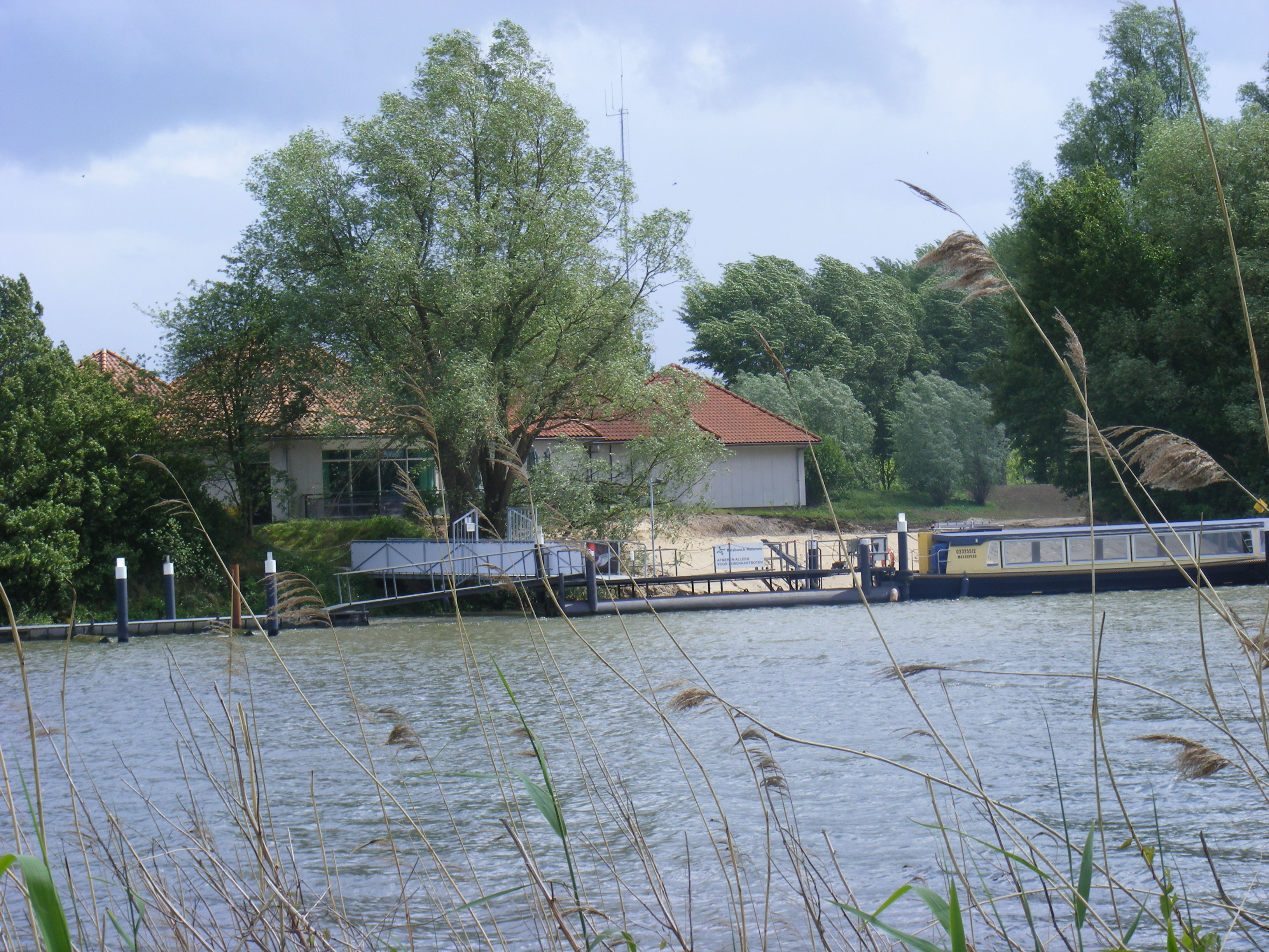 This is a photo or sound file made in De Biesbosch National Park in the Netherlands, with the main subject of the file in the category: humans in nature